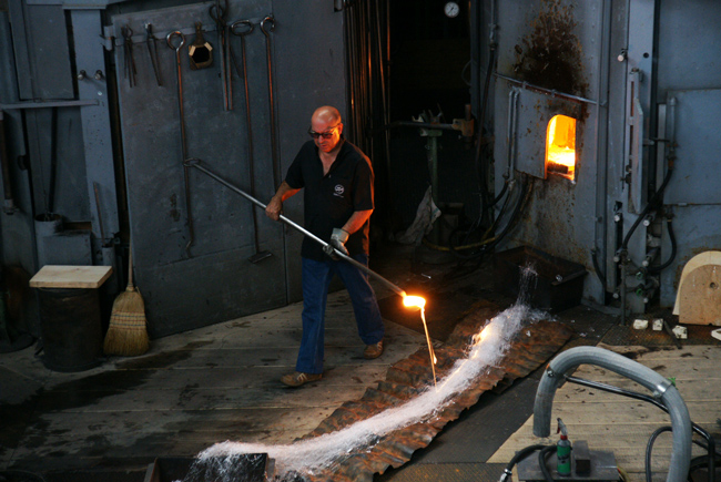 glassblower, Glasi Hergiswil